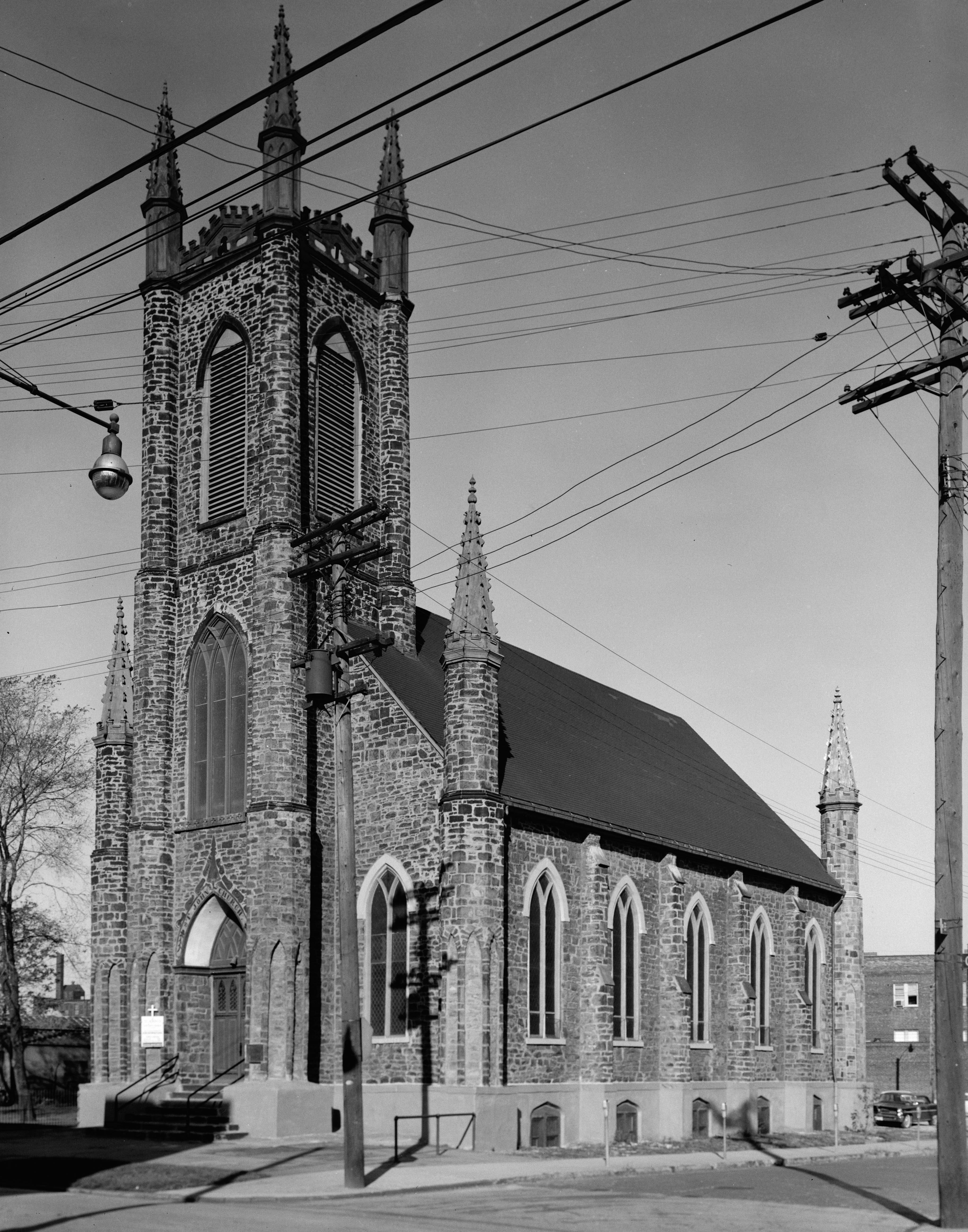 Front and eastern side of St. John's Episcopal Church, located at 2600 Church Street in Cleveland, Ohio, United States. Built in 1838 and since modified after being damaged by a tornado, it is Cleveland's oldest church, and it is listed on the National Register of Historic Places.